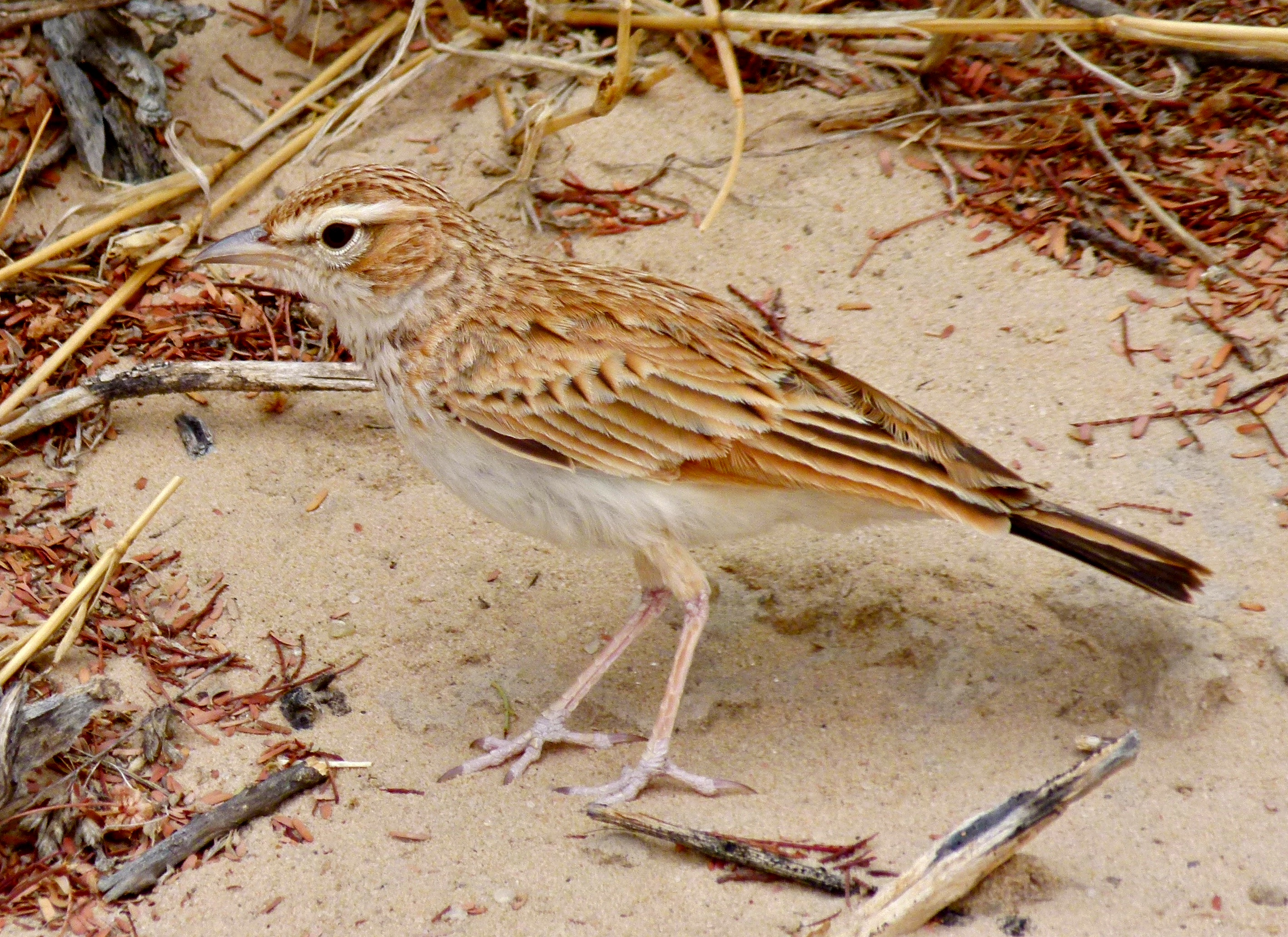 Calendulauda africanoides harei in the Nossob riverbed, Kgalagadi Transfrontier Park, SOUTH AFRICA